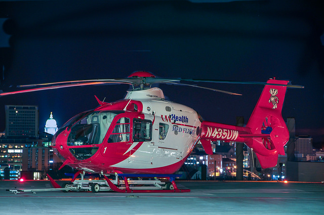 med1cap1